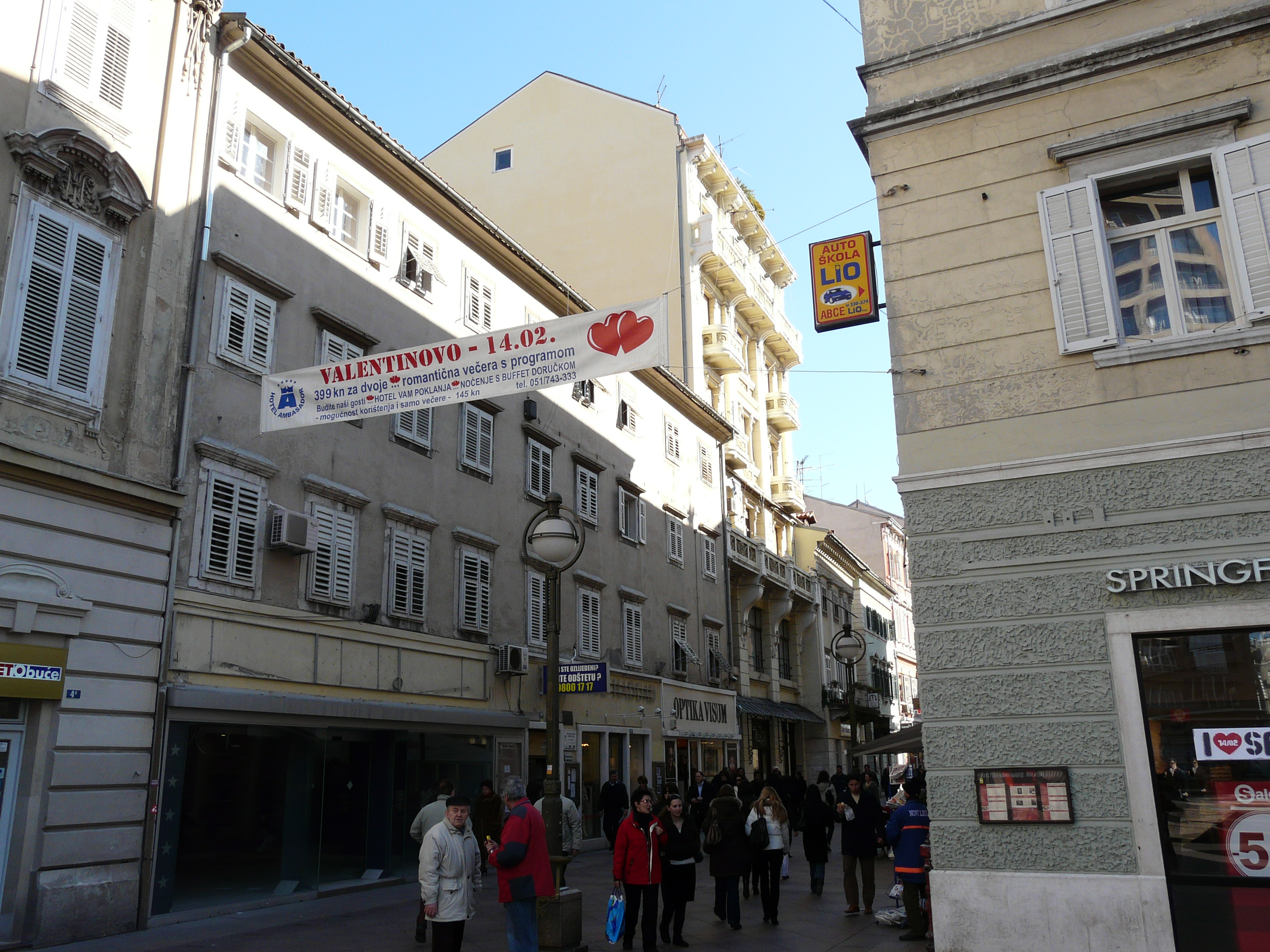 Mattiassi House on Korzo str 38 and house on Korzo str 40, Rijeka, Croatia.